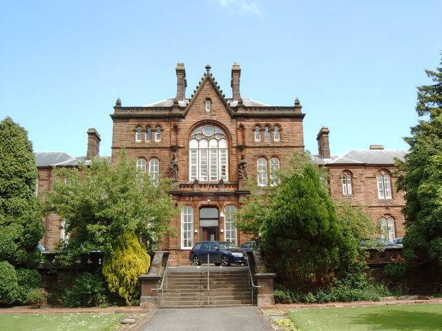 Dumfries & Galloway Health Board Building, Nithbank